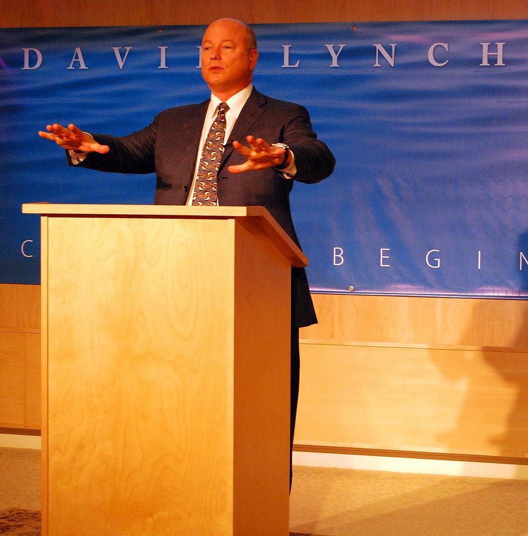 American physicist; president of the Maharishi University of Management